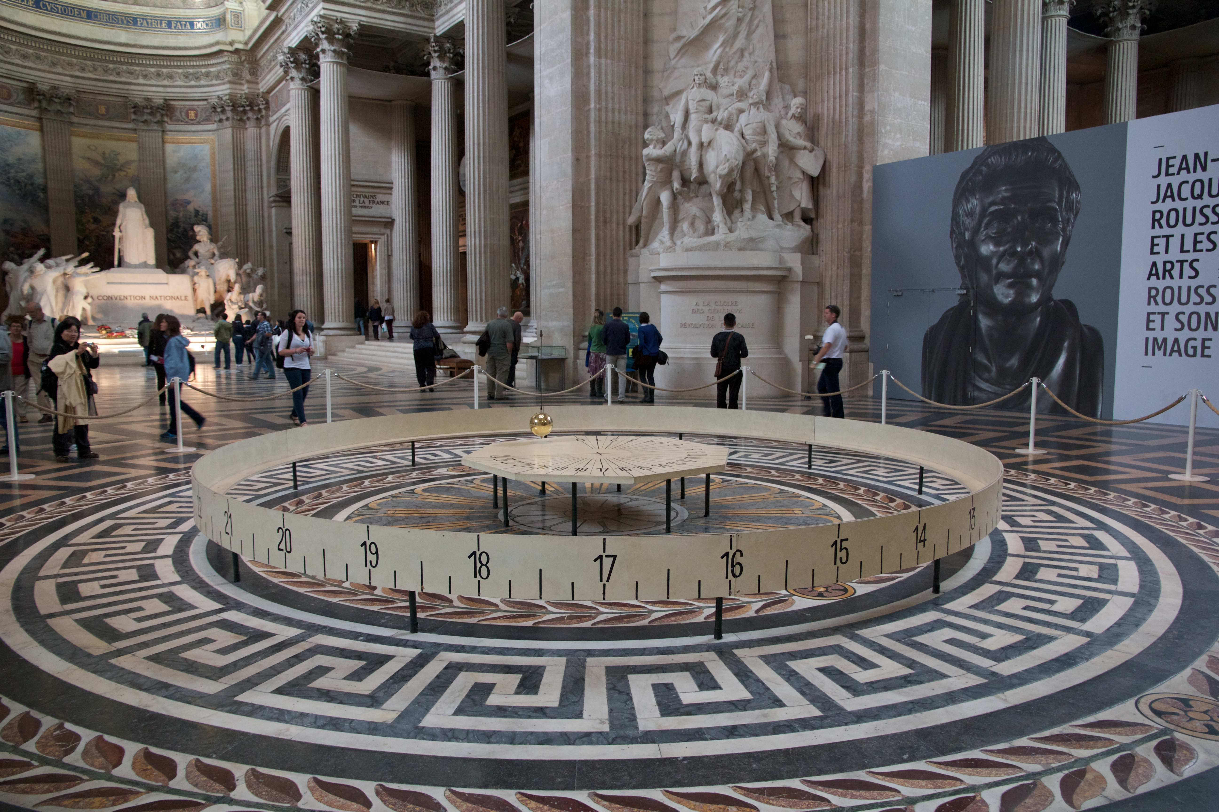 Foucault pendulum at the Panthéon de Paris.